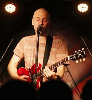 HALLER at Zoom 2017.